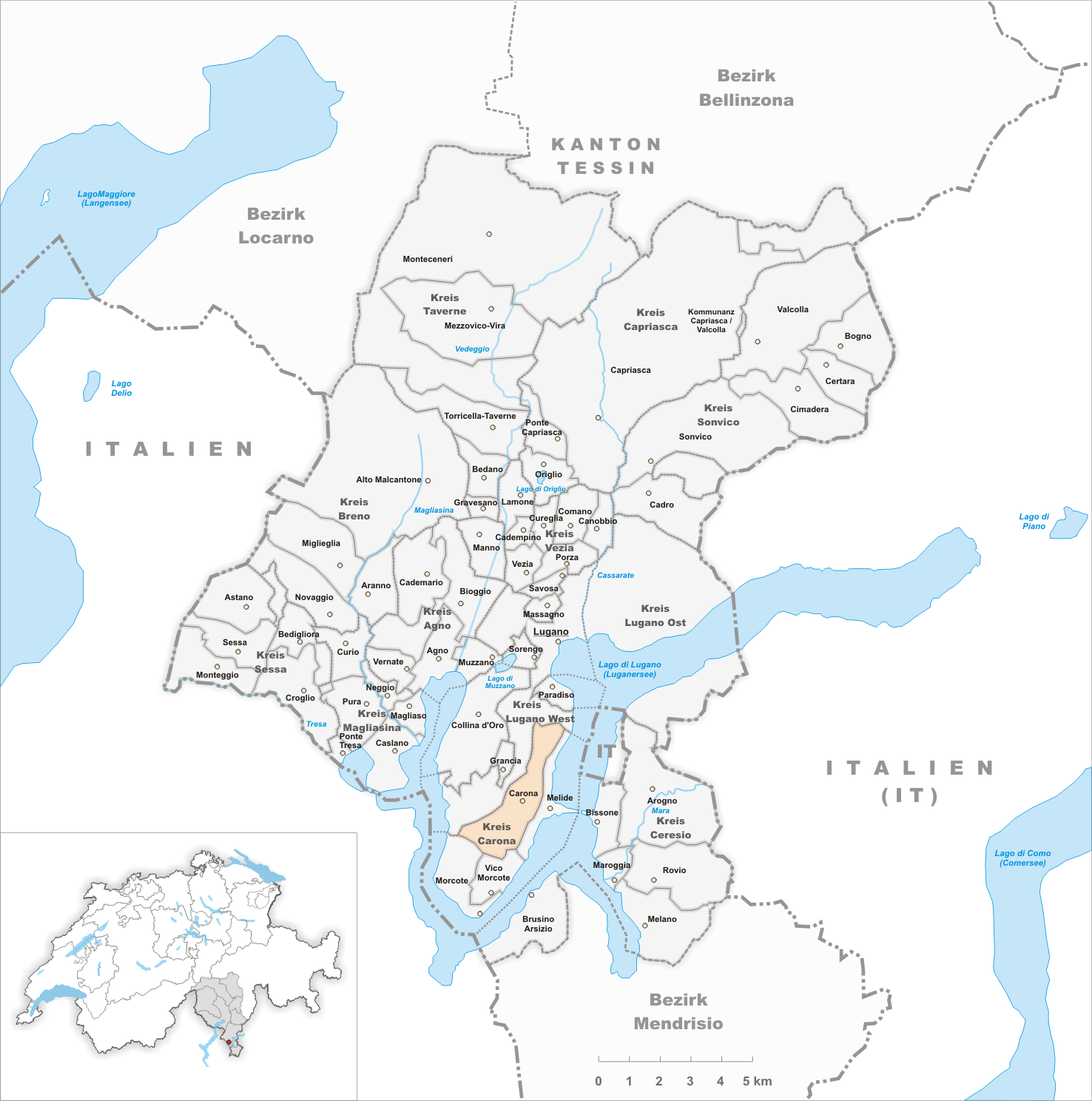 Municipality Carona